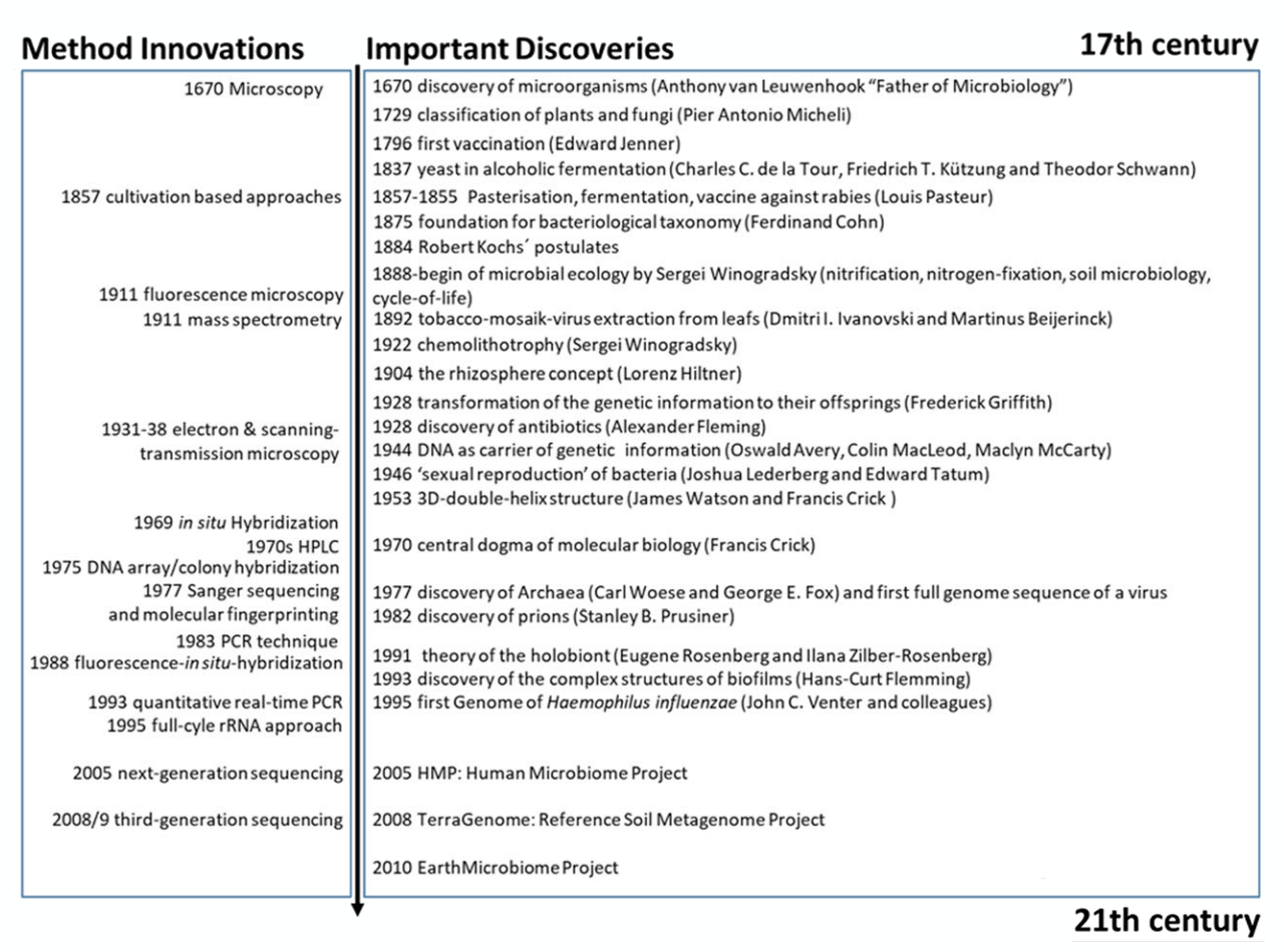 History of microbiome research from seventeenth century History of method innovations and discoveries